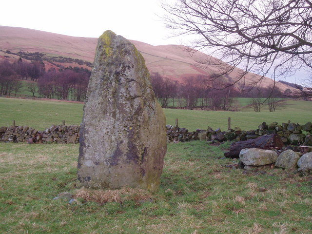 Standing stone at Castleton Standing stone east of Castleton Farm, with Seamab Hill in background. The rock of which the stone is composed is probably volcanic and has a distinct layering, part of which is visible as a fractured blocky crust on the upper right side of the stone.